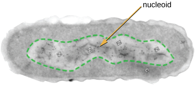 Name: Microbiology ID: Language: English Summary: Subjects: Science and Technology Keywords: Print Style: License: Creative Commons Attribution License (by 4.0) Authors: OpenStax Microbiology Copyright Holders: OpenStax Microbiology Publishers: OpenStax Microbiology Latest Version: 4.4 First Publication Date: Oct 17, 2016 Latest Revision: Nov 11, 2016 Last Edited By: OpenStax Microbiology